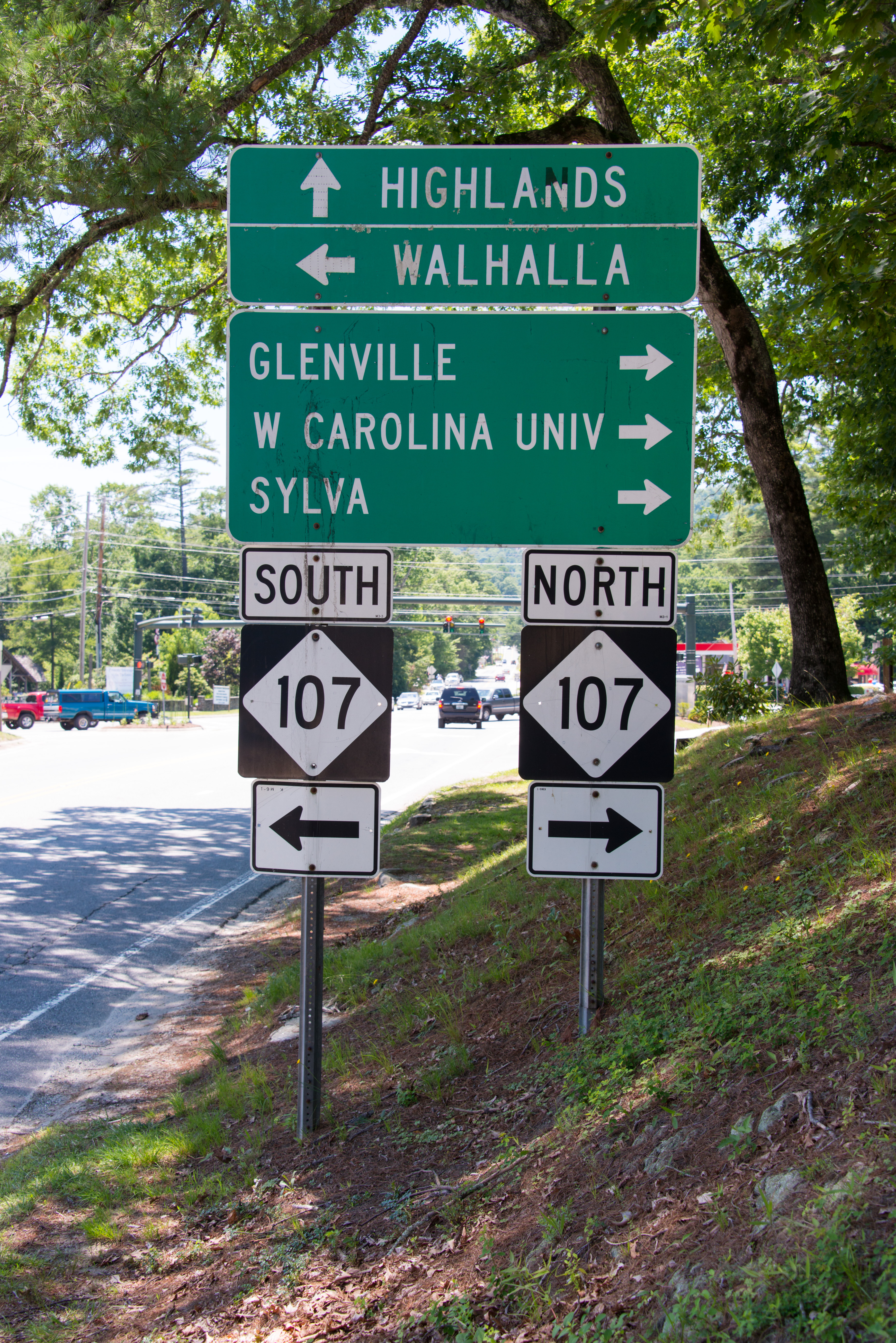 Directional signs of North Carolina Highway 107 with destinations on top, along westbound US 64, in Cashiers.